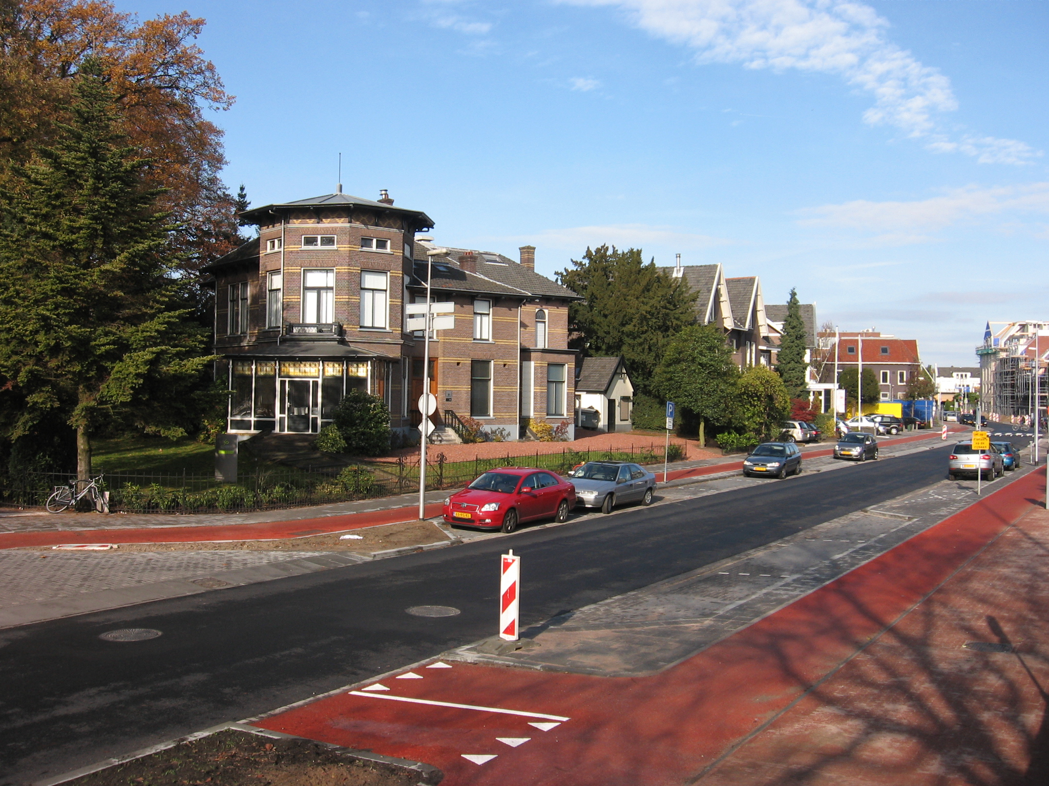 City Hall with handrail on the staircase by Henk Dannenburg (1974) at the Brinklaan in Bussum/The Netherlands